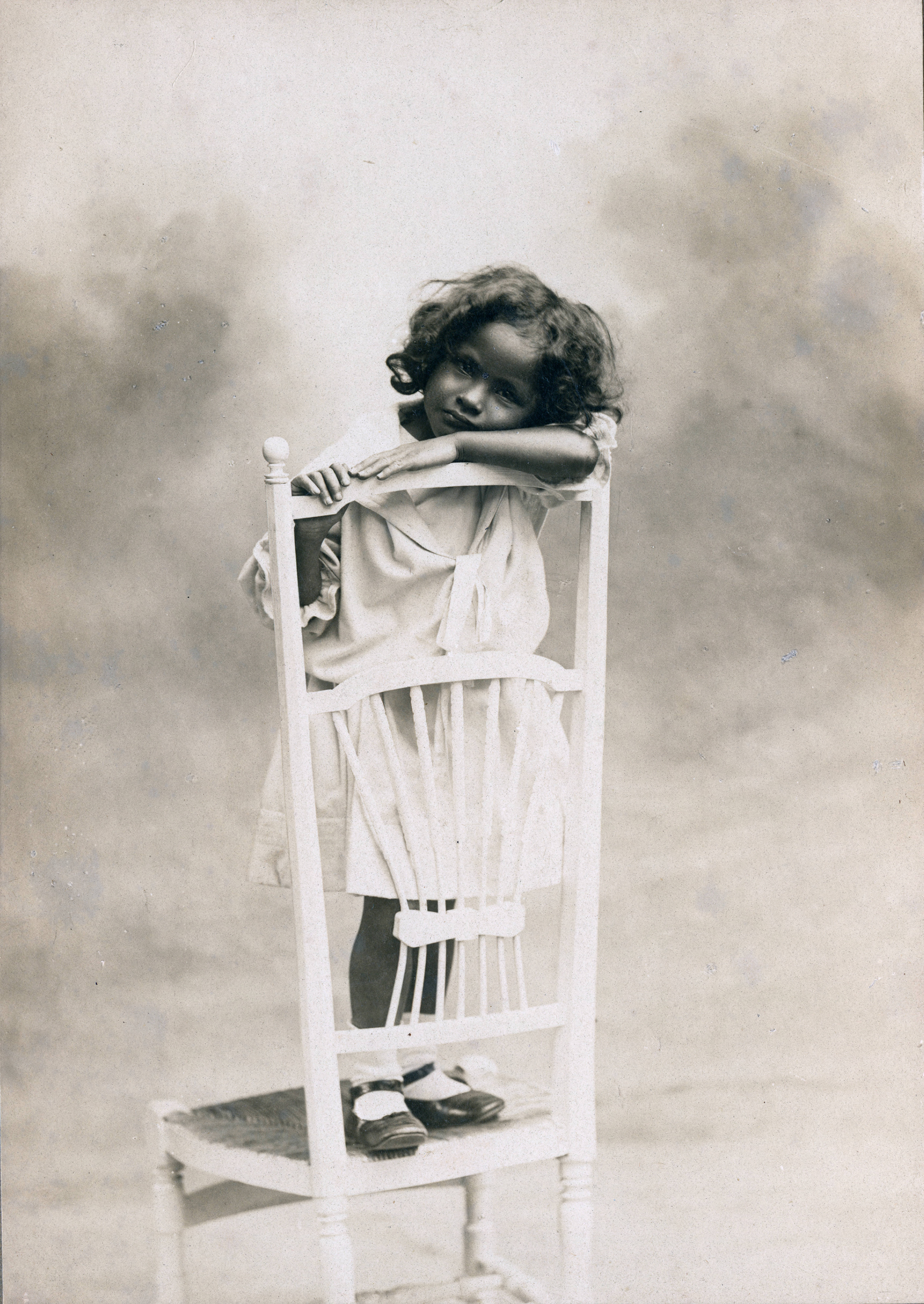 Portrait of princess Marie-Louise, grandniece of the Queen Ranavalona III. The heir-apparent of the fallen Madagascar Kingdom, Marie-Louise had left Ranavalona's villa to study at a French high school and would go on to marry a French agricultural engineer named Andre Bosshard on June 24, 1921. Although she continued to receive a small pension from the French government throughout her lifetime, Marie-Louise chose to pursue a career as a nurse and was awarded the Legion of Honor for her medical services during World War II. After Bosshard and the childless Marie-Louise divorced, the young woman reportedly made the most of her new-found freedom as a flamboyant and vivacious social butterfly. Marie-Louise died in Bazoches-sur-le-Betz on January 18, 1948, without leaving any descendants, and was buried in Montreuil, France.[1]